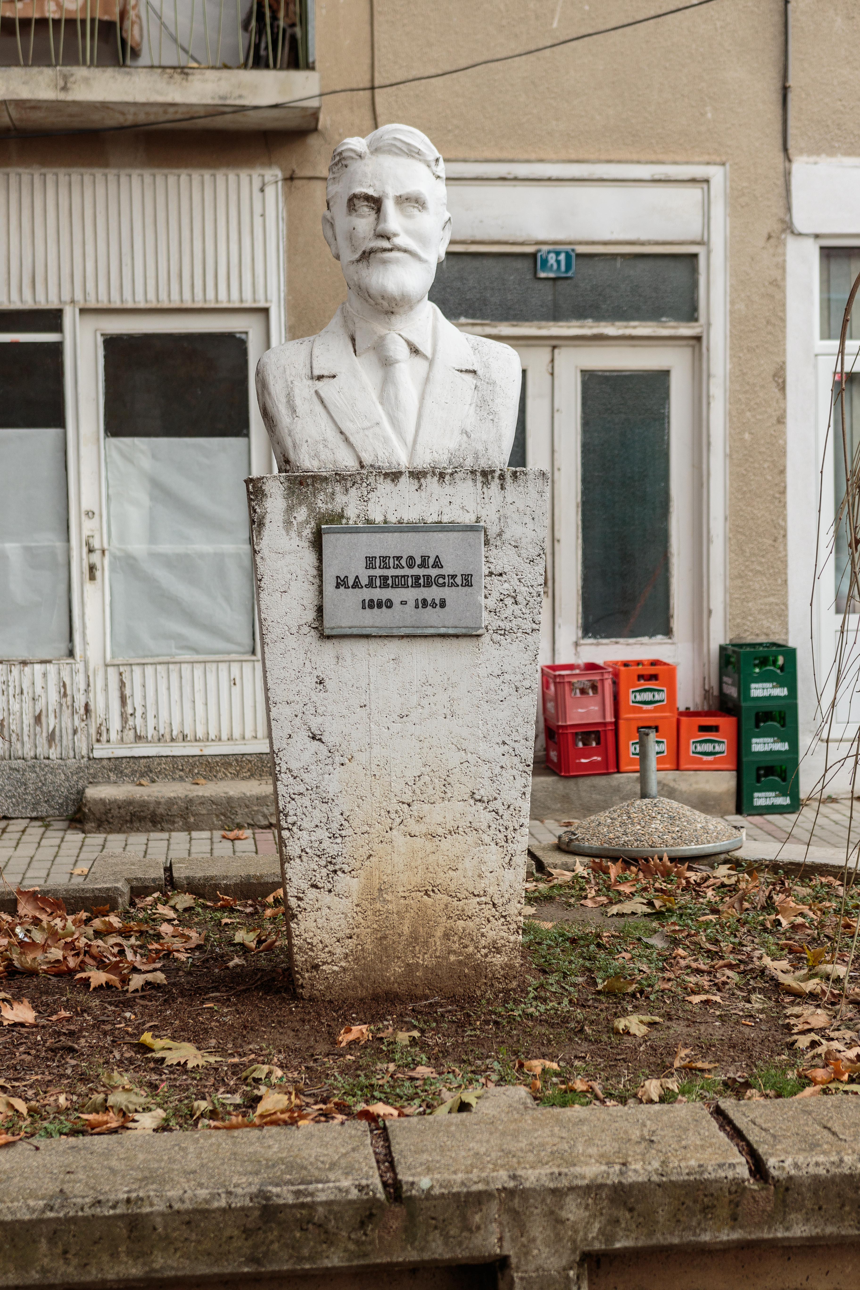 Bust in Berovo